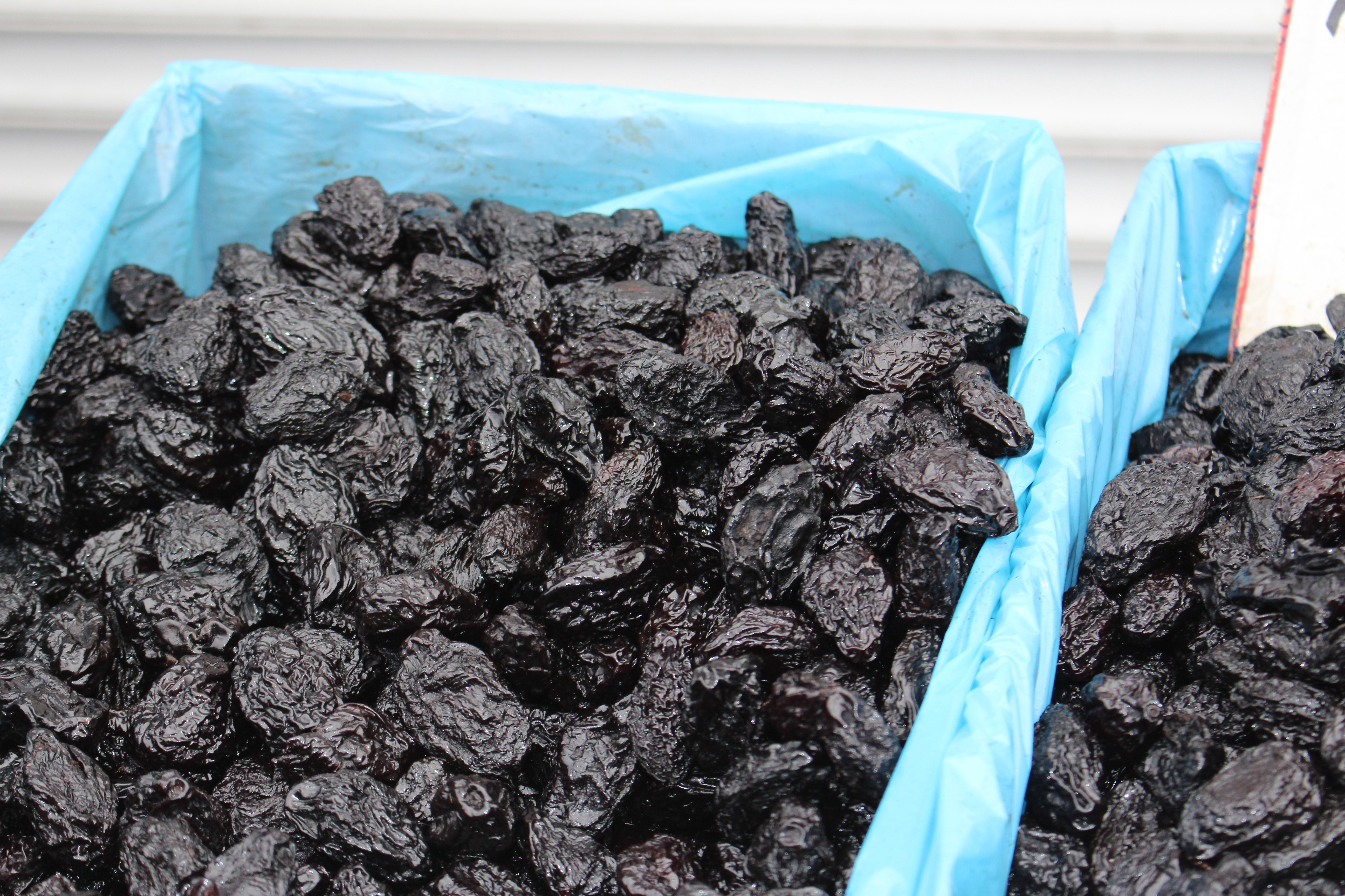 Dried plums (Prunus domestica) in Petrozsény, Transylvania.